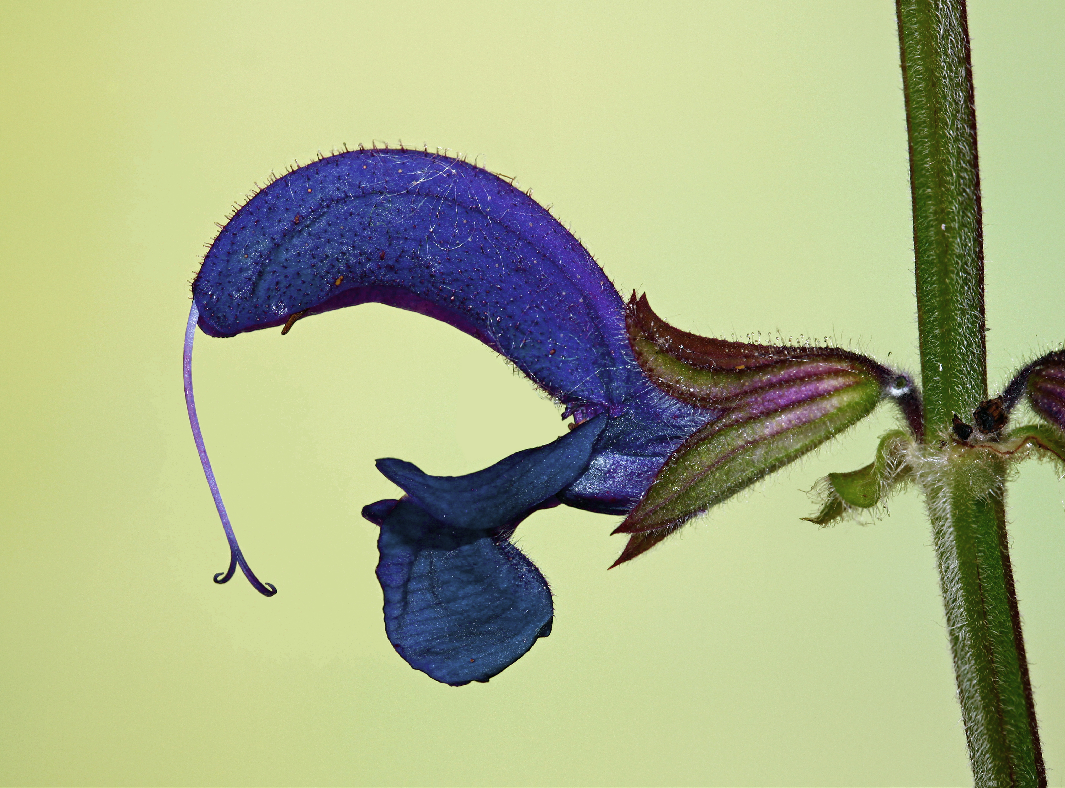 Meadow Clary, Meadow Sage, flower. Karlsruhe, Germany.